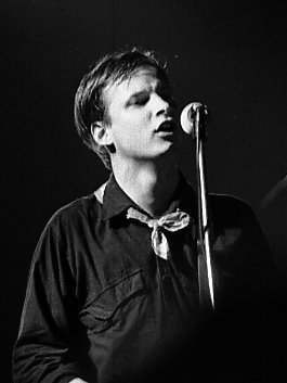 Music Hall. Toronto, 2/2/80 Andy Partridge of the band XTC